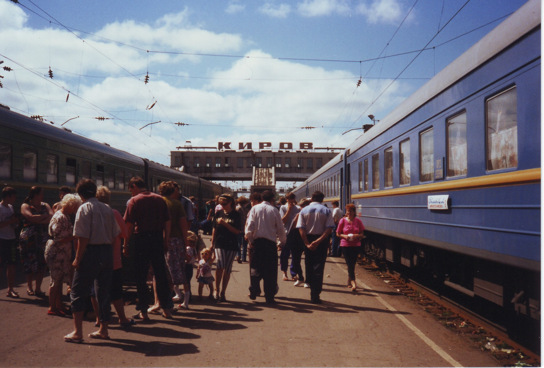 Kirov at the Trans-Siberian railway.